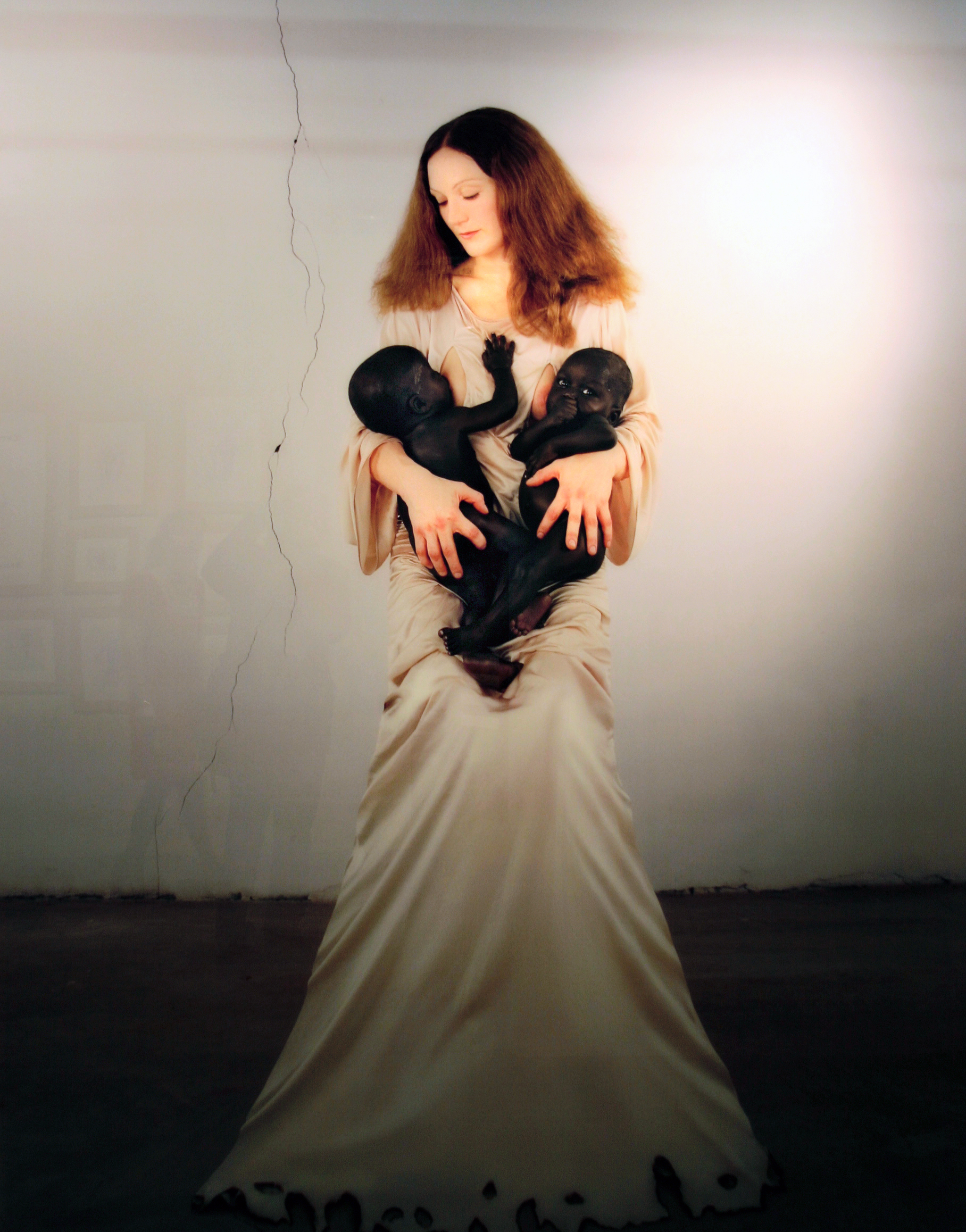 Photography from Mark Barry on Flickr: Adjusted lighting and removed reflections in original image. Licensed under Creative Commons Attribution Generic (CC BY)